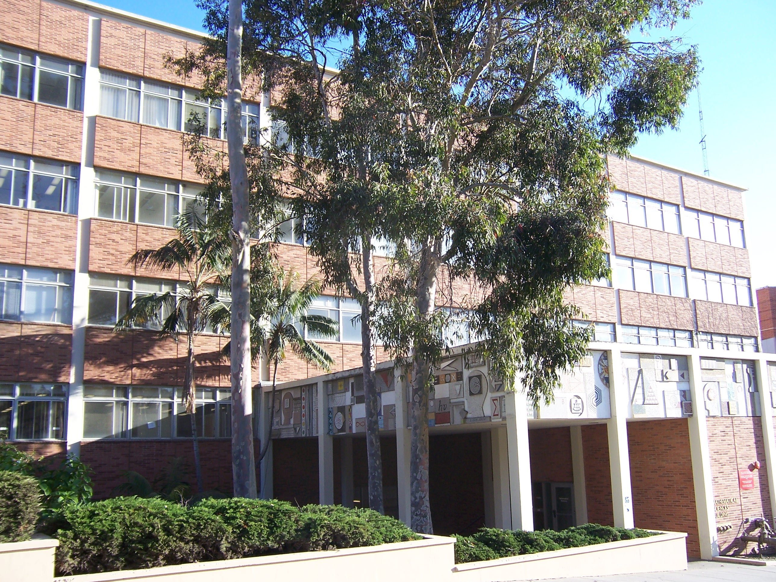 UCLA Mathematical Sciences Building